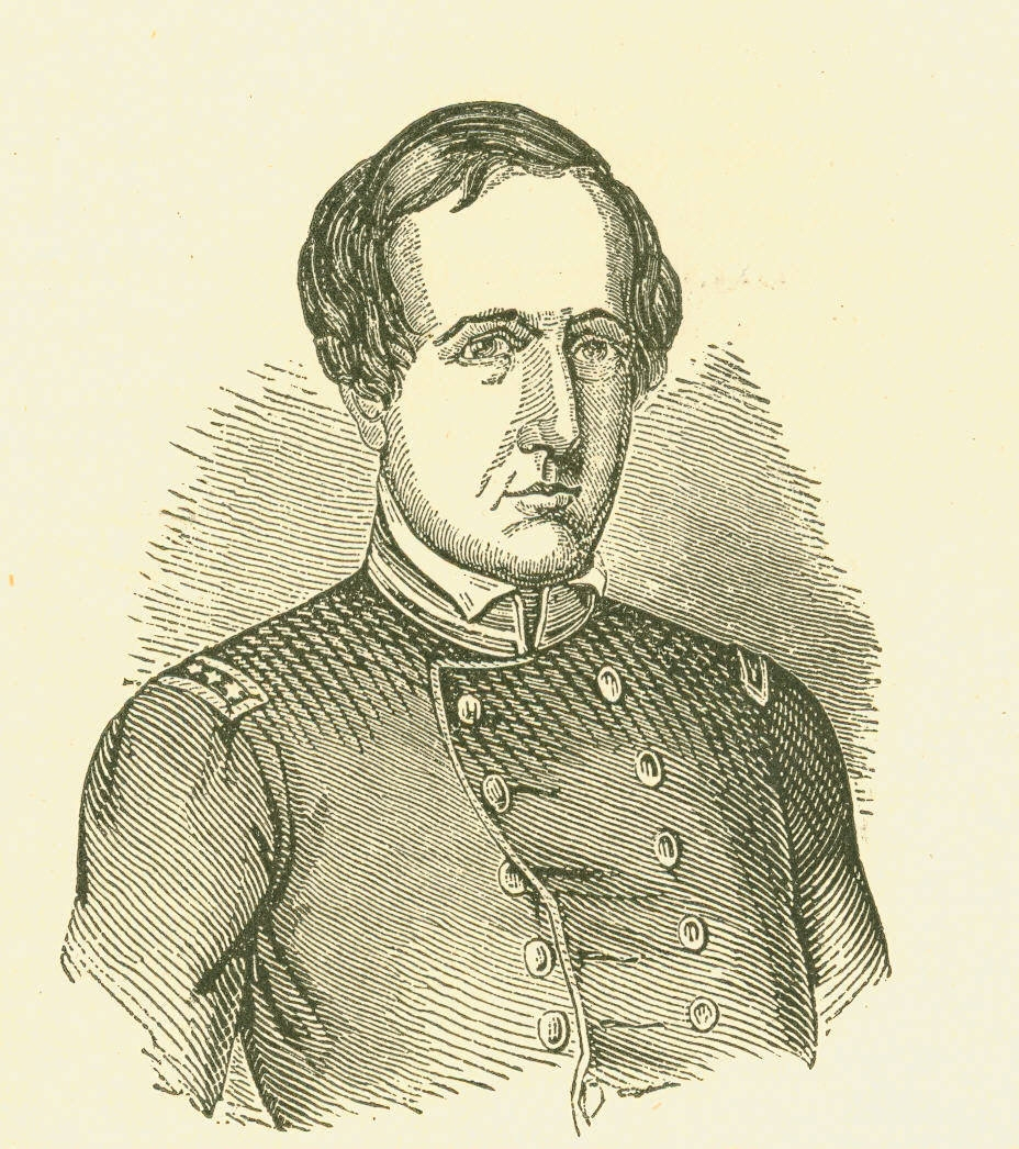 Illustration showing Colonel Thomas Childs, commander of the 1st U.S. Artillery.